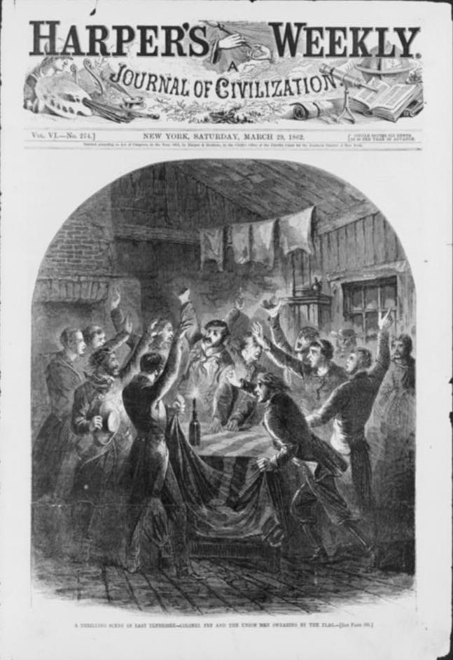 Engraving from Harper's Weekly showing members of the East Tennessee bridge-burning conspiracy swearing allegiance to the U.S. flag. Originally entitled: "A Thrilling scene in east Tennessee—Colonel Fry and the Union men swearing by the flag." Wood engraving.